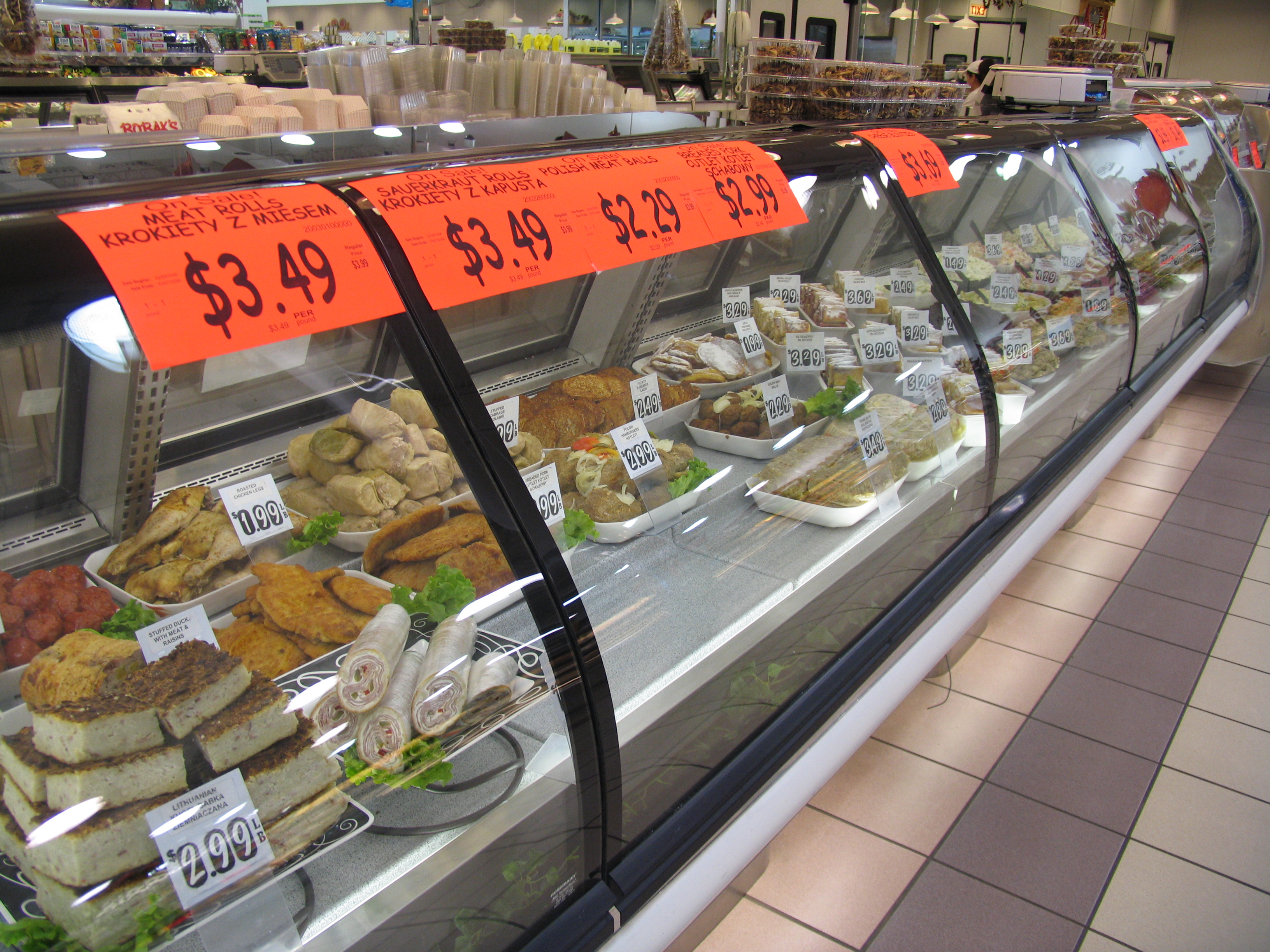 Polish market in Chicago